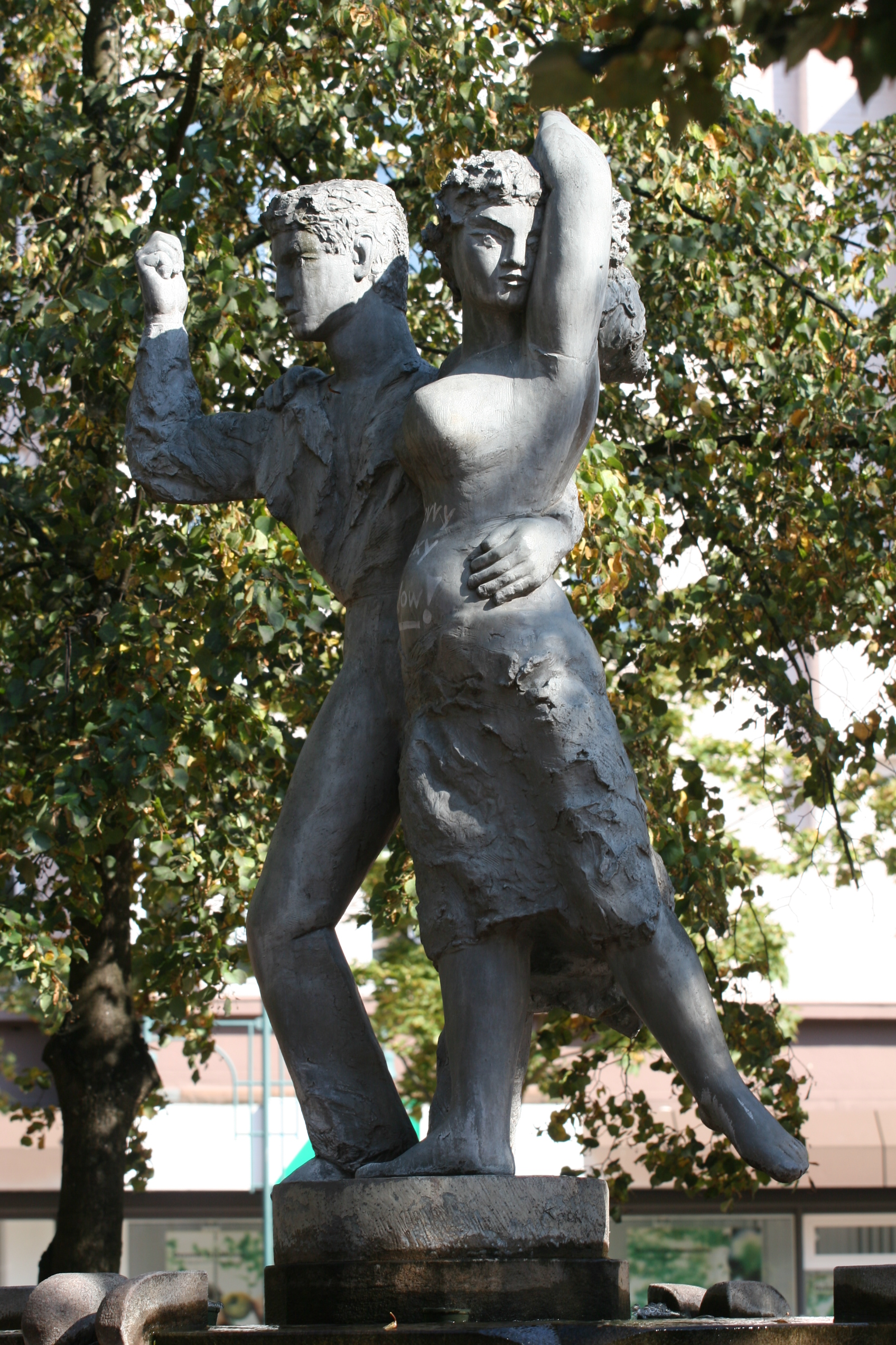 Sculpture: "Tanzpaar" ("Dancing pair") from Hans Kock in Kiel (Vinetaplatz, 1987), Germany